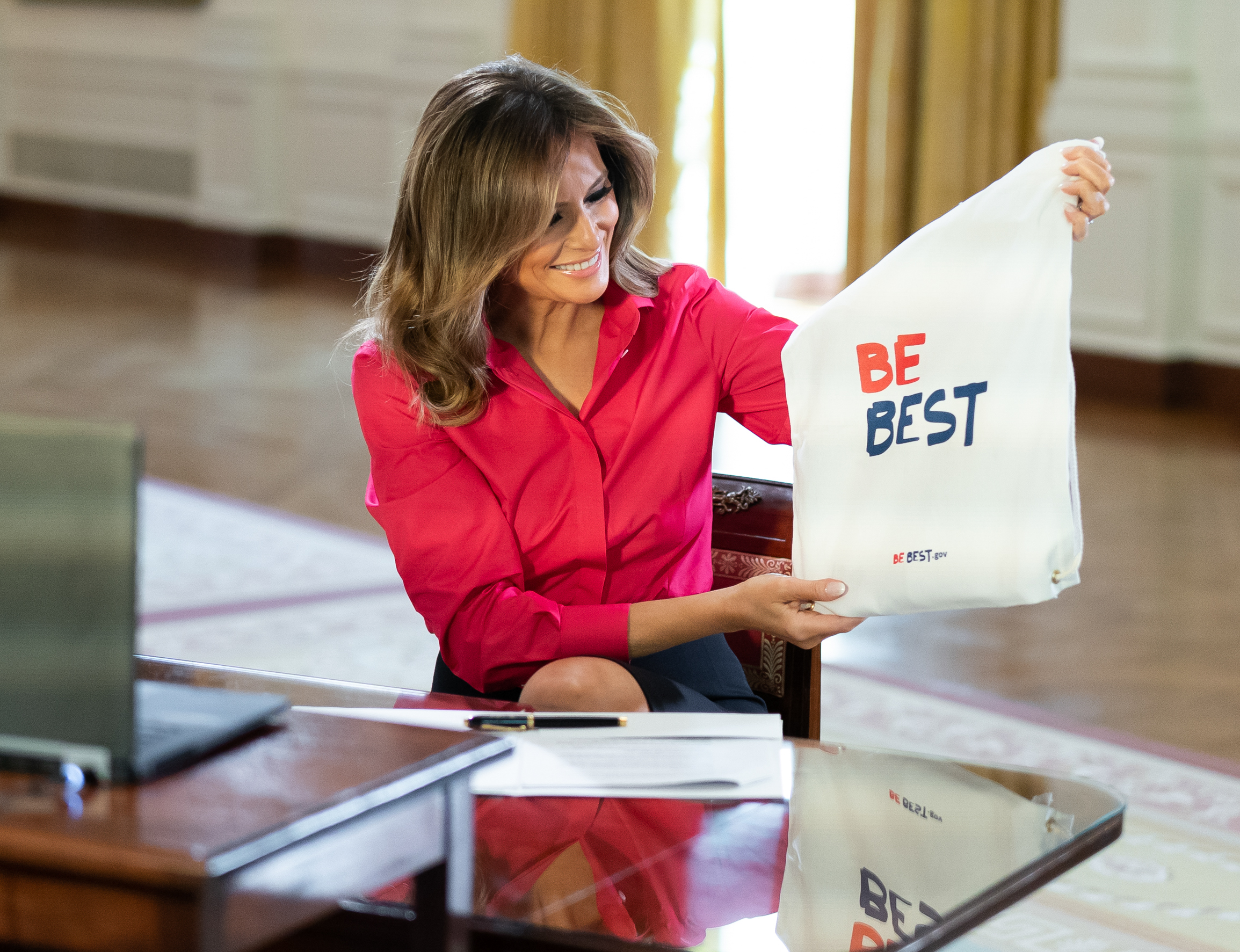 On the second anniversary of her Be Best initiative, First Lady Melania Trump participates in a surprise Zoom call with Jennifer Horton’s first grade class from Tomek Eastern Elementary School in Fenton, Mich. Thursday, May 7, 2020, in the East Room of the White House. (Official White House Photo by Andrea Hanks)